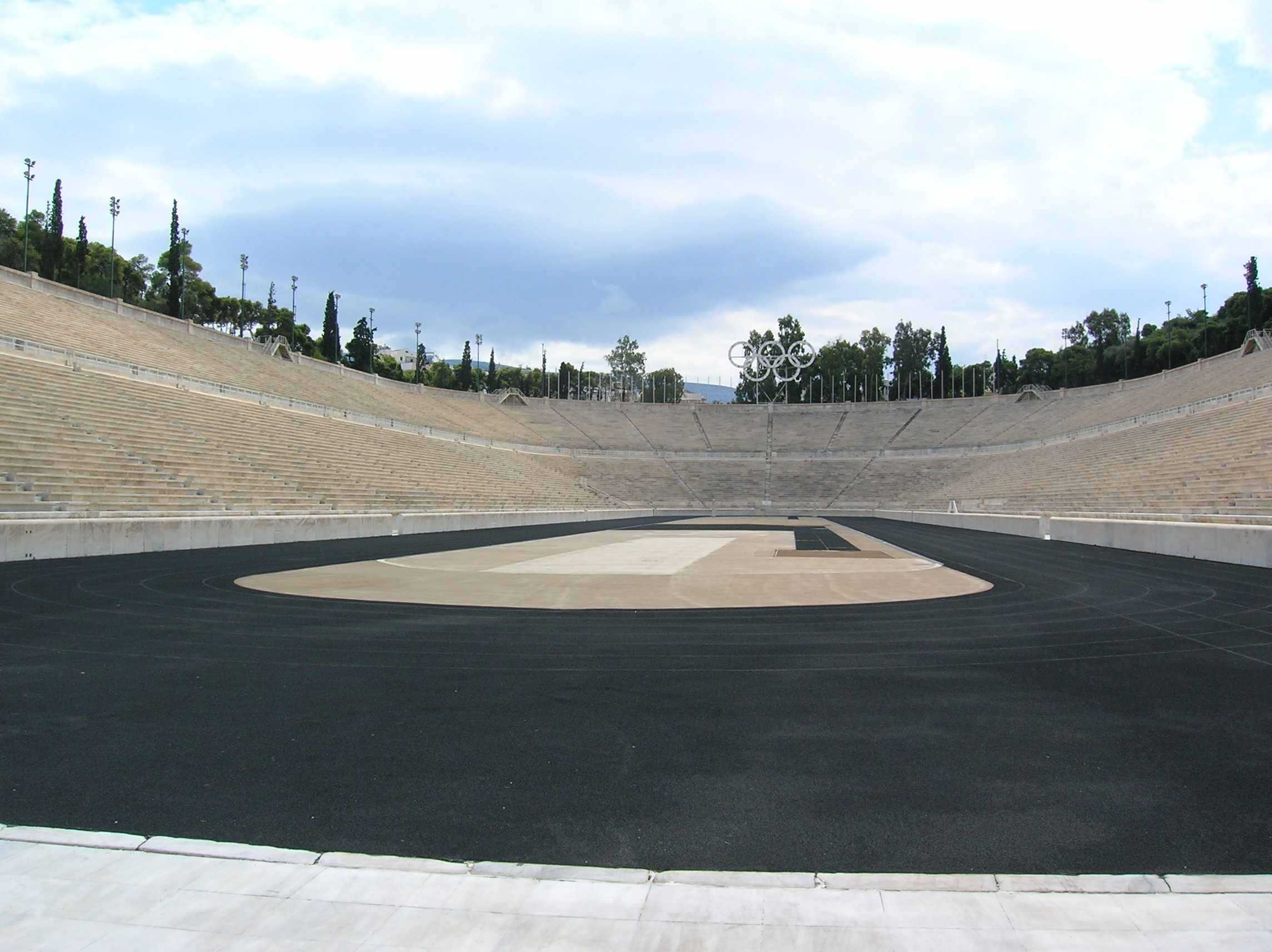 Panatinaiko Stadium, Athens, Greece.